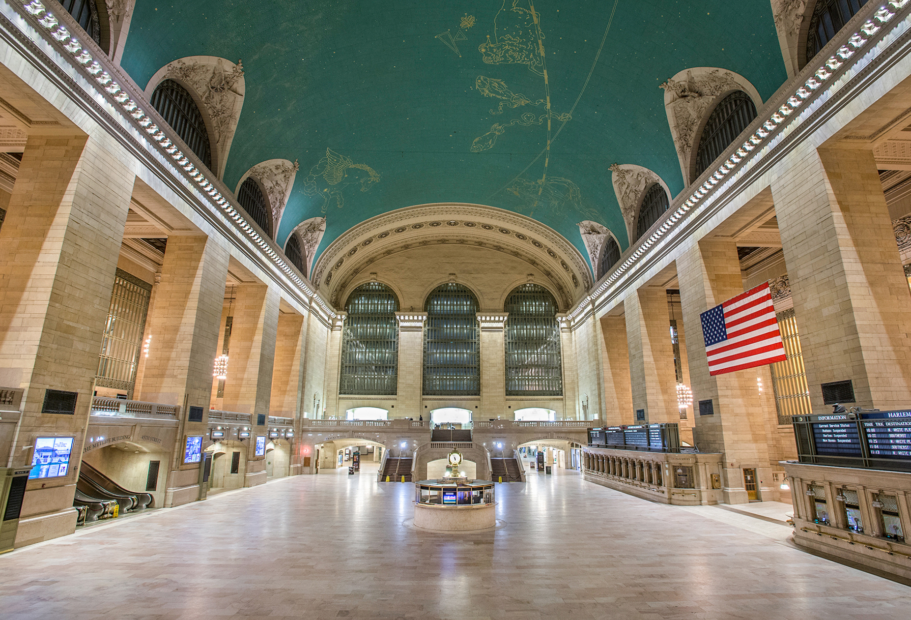 Edited version of File:Blizzard of 2015- Empty Grand Central Terminal (16192599239).jpg